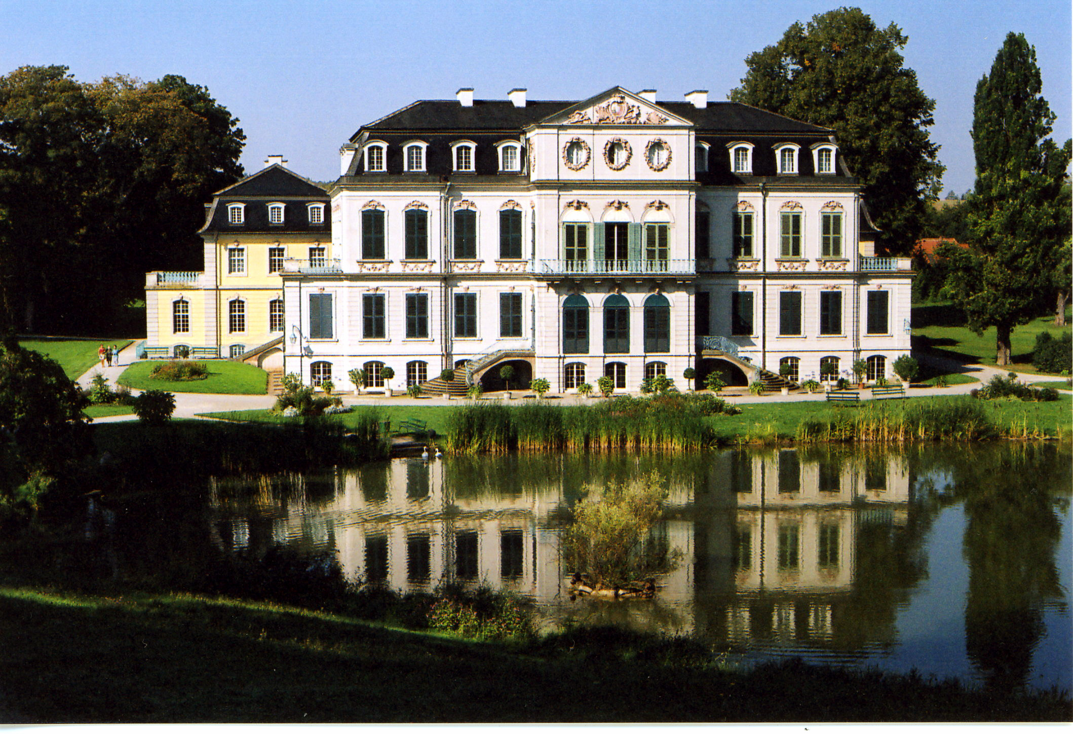 Baroque Castle Wilhemsthal